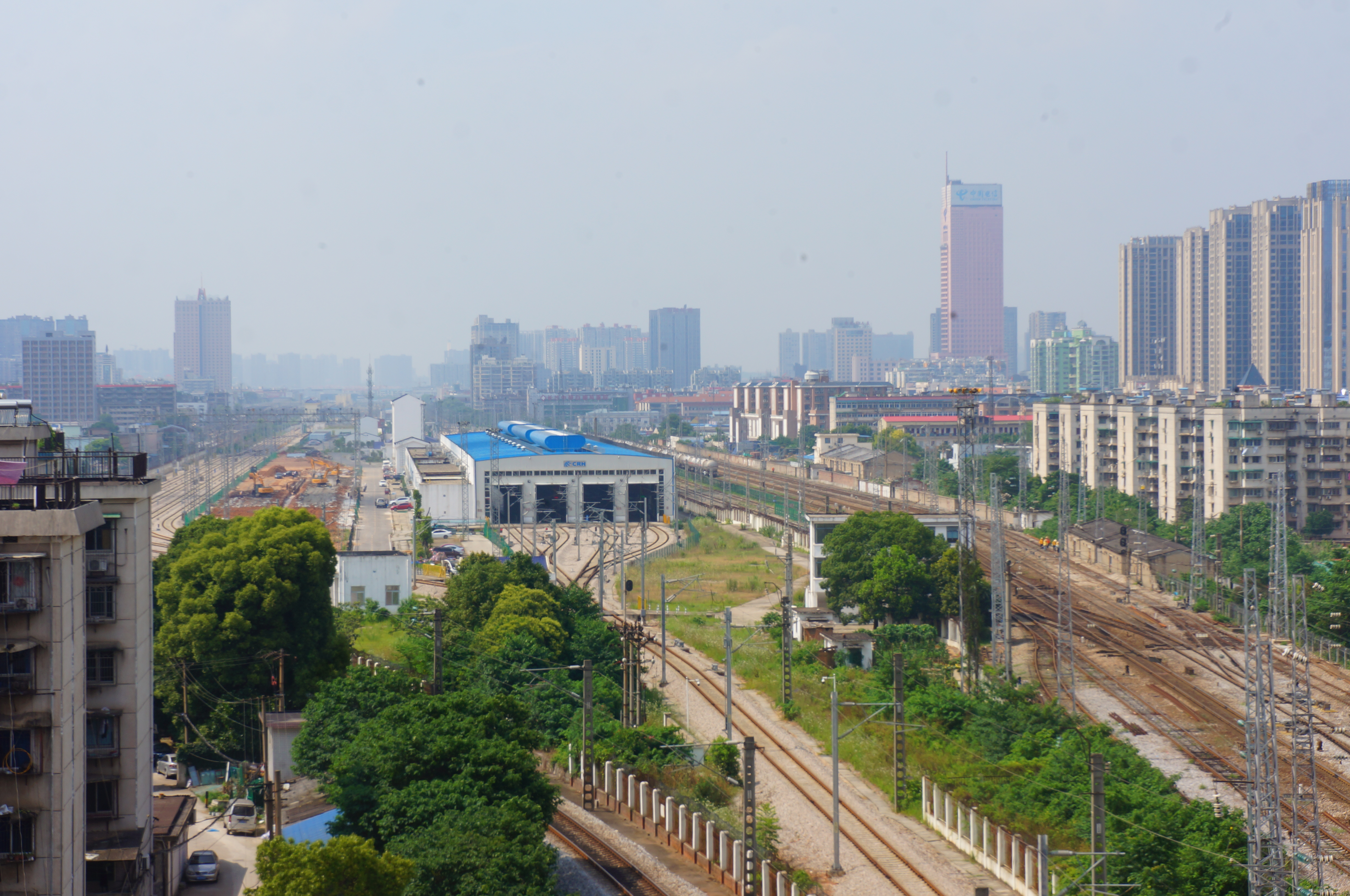 201906 Changshadong Station and Changsha EMU Depot